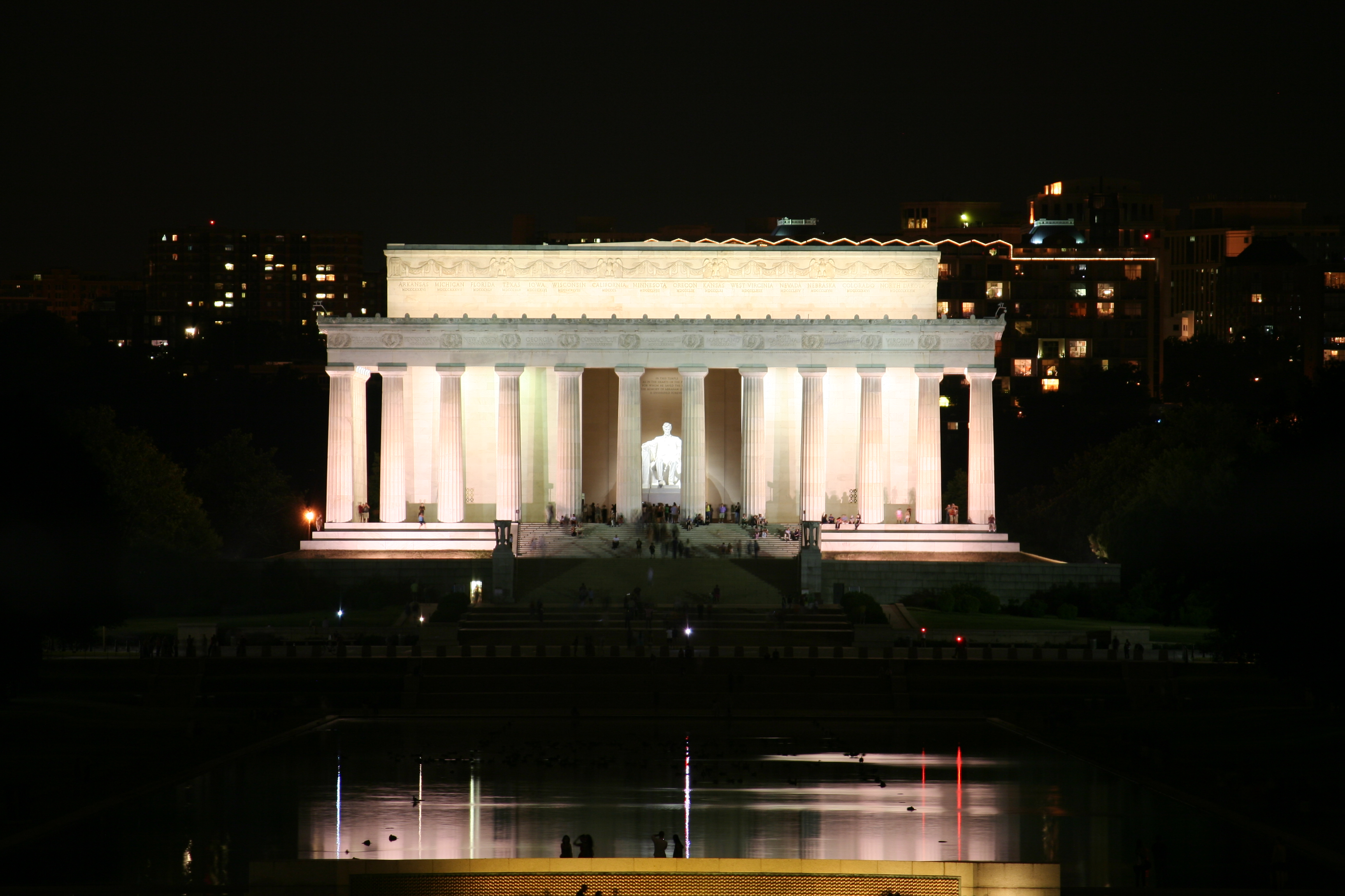 Lincoln Memorial as viewed from Washington Monument. As you can tell, the building isn't perfectly aligned with my camera (columns on north end not in view, but south are for one). However, I'm directly west of the Washington monument by about 40 ft or so. I lined up my camera with the Washington Monument's markings on the ground to face directly west and did not attempt to get the Lincoln Memorial aligned (only centered). Camera was resting on marble seating surround. (38.8894671, -77.0356125)